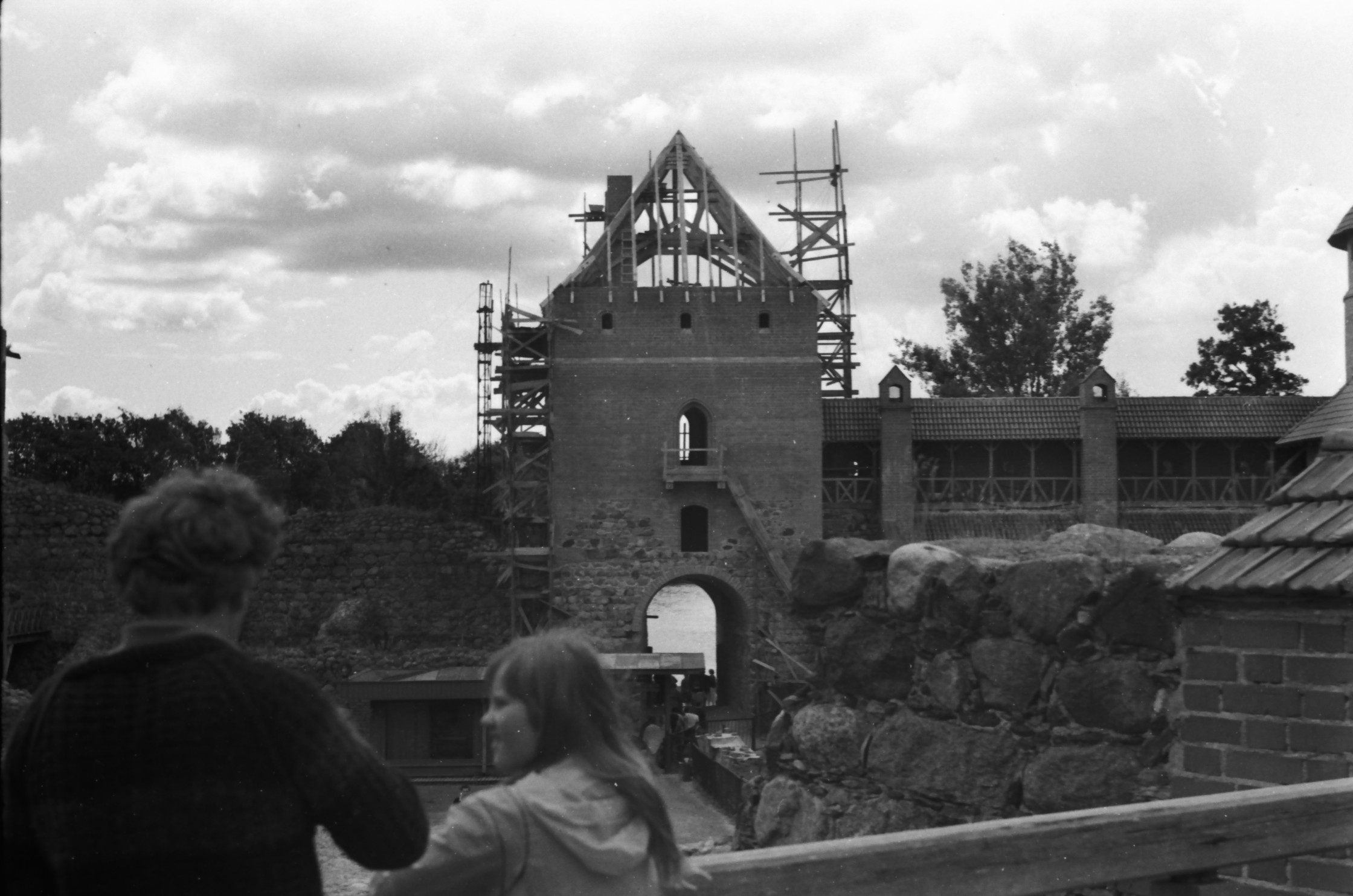 Trakai Island Castle in 1984, Lithuania